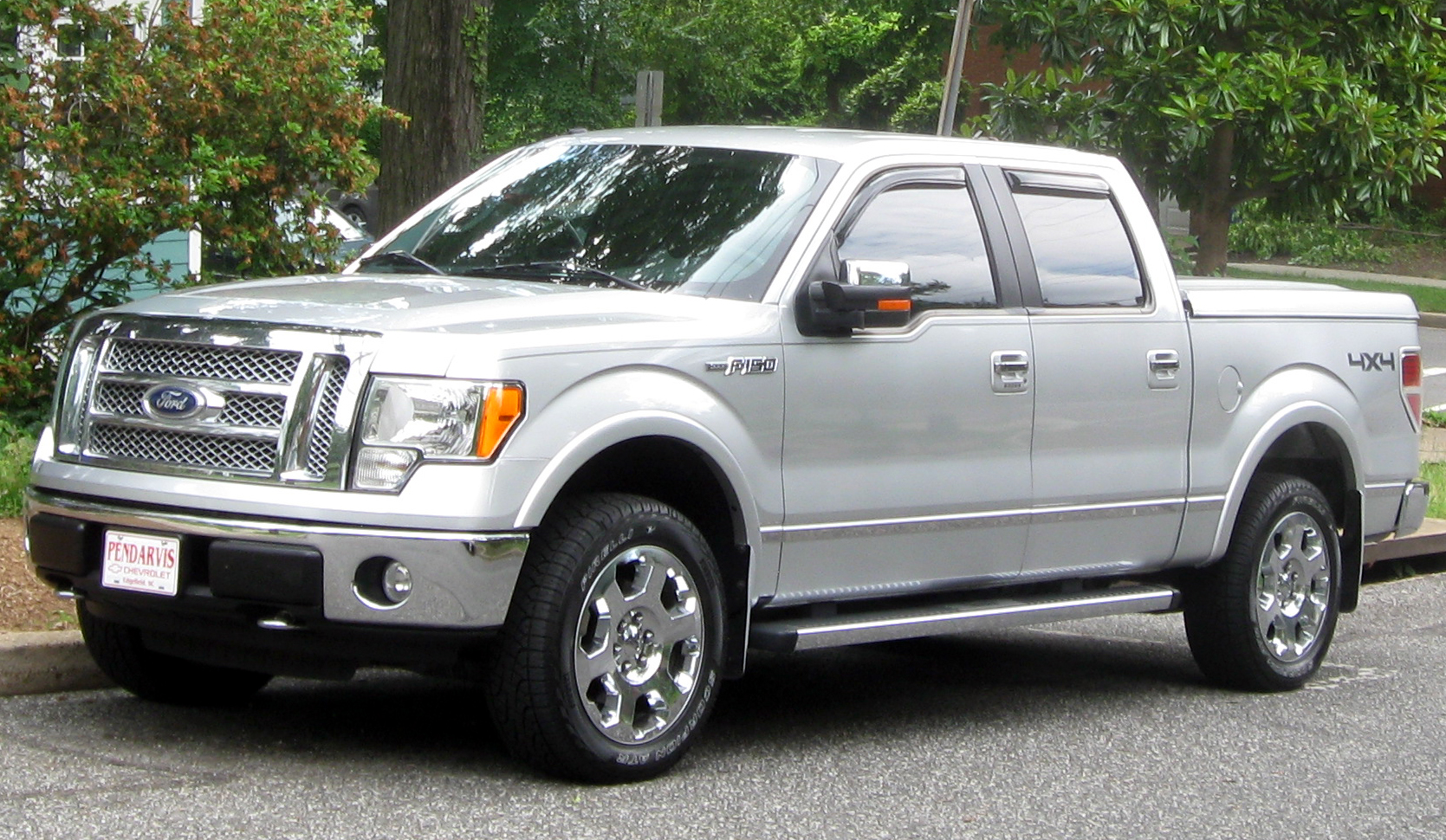 2009-2011 Ford F-150 photographed in Washington, D.C., USA.